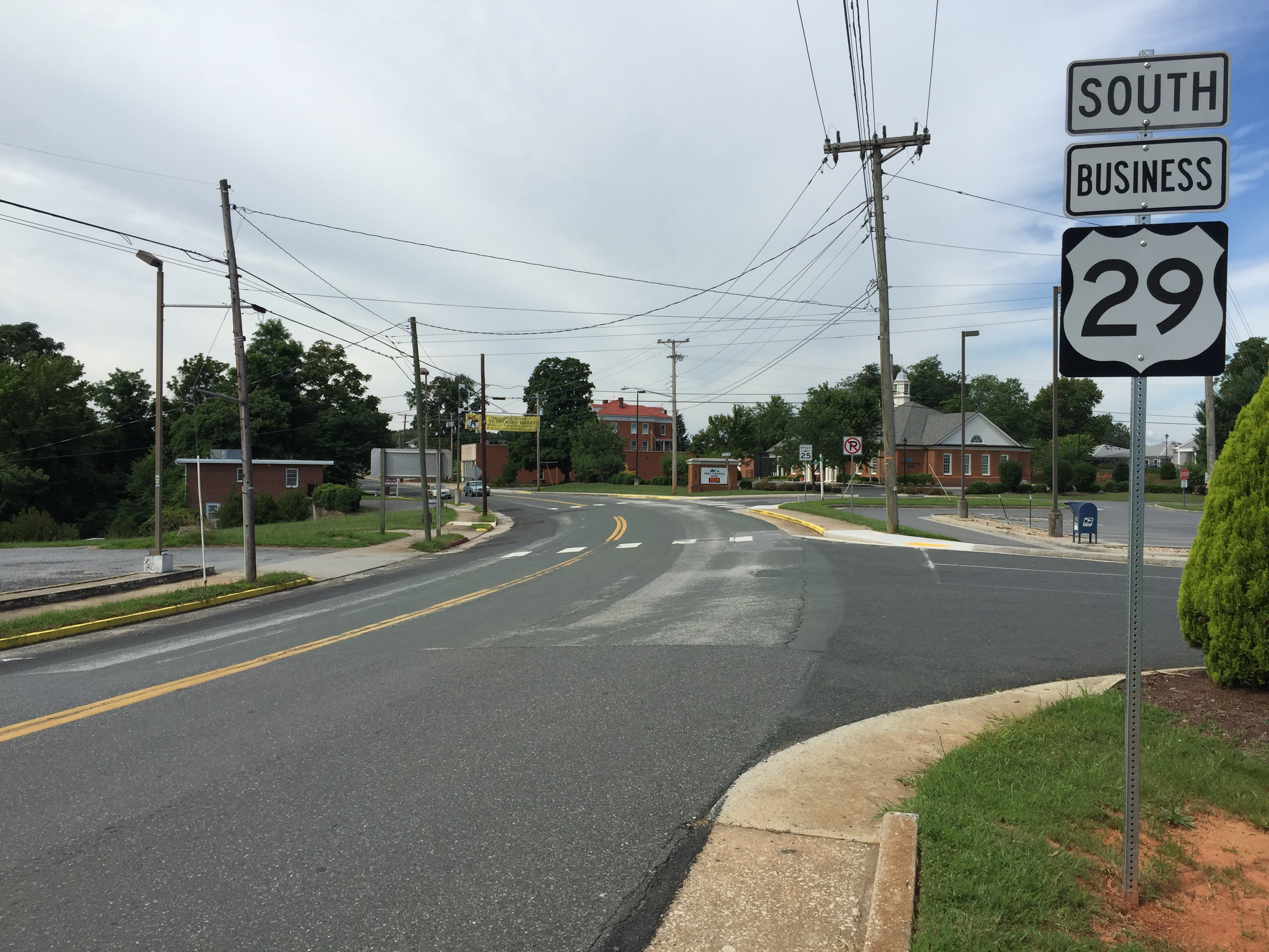 View south along U.S. Route 29 Business (Main Street) at U.S. Route 60 (Richmond Highway/Lexington Turnpike) in Amherst, Amherst County, Virginia